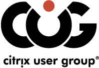 Citrix User Group Norway main logo